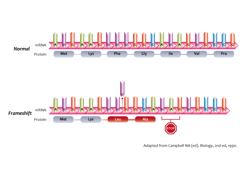 This image was created by the NHS National Genetics and Genomics Education Centre. For further information and resources please visit our website